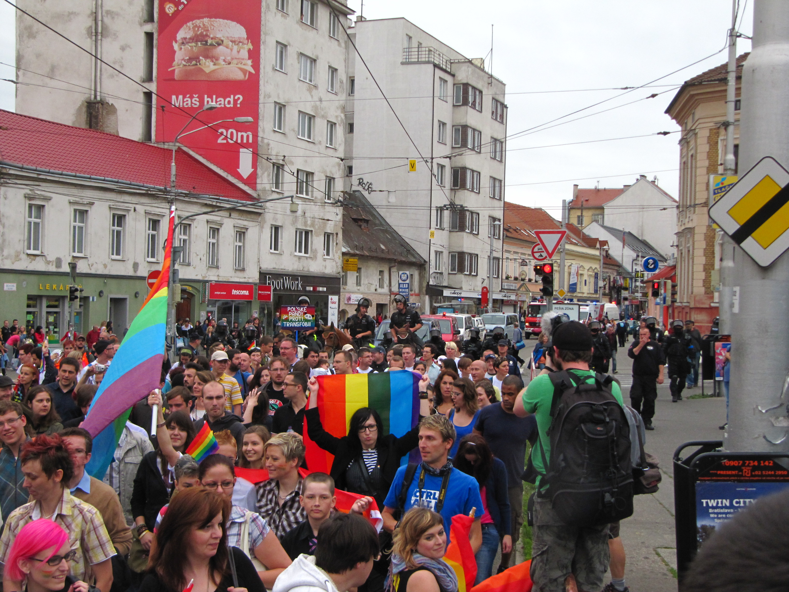 March at the LGBT Pride festival Duhovy PRIDE Bratislava 2012, in Bratislava, Slovakia.